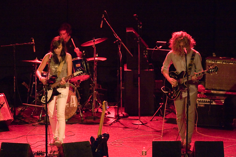 The Jealous Girlfriends at the Bowery Ballroom in New York City.